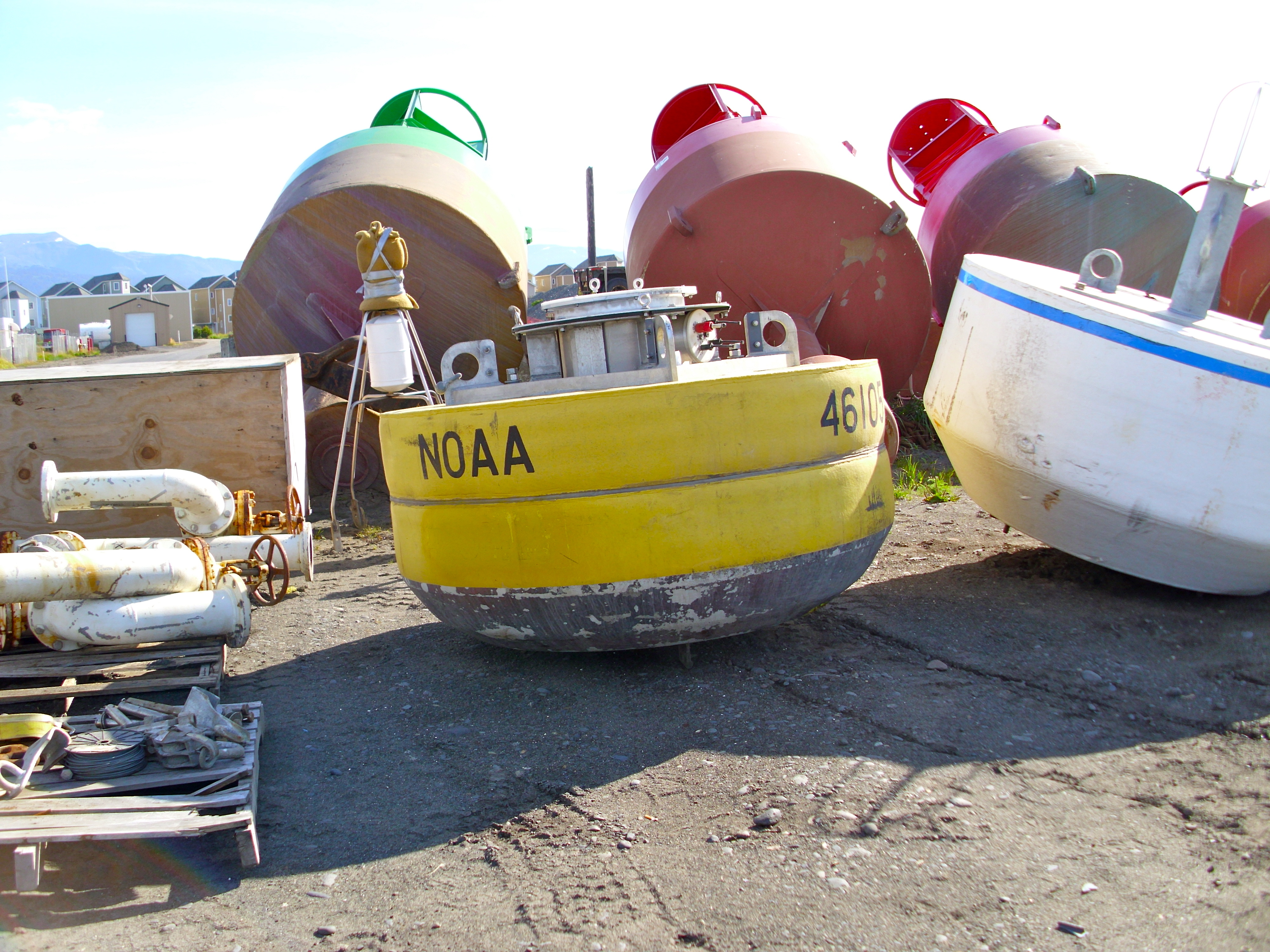 National Oceanic and Atmospheric Administration buoy out of water, Homer Spit, Homer, Alaska